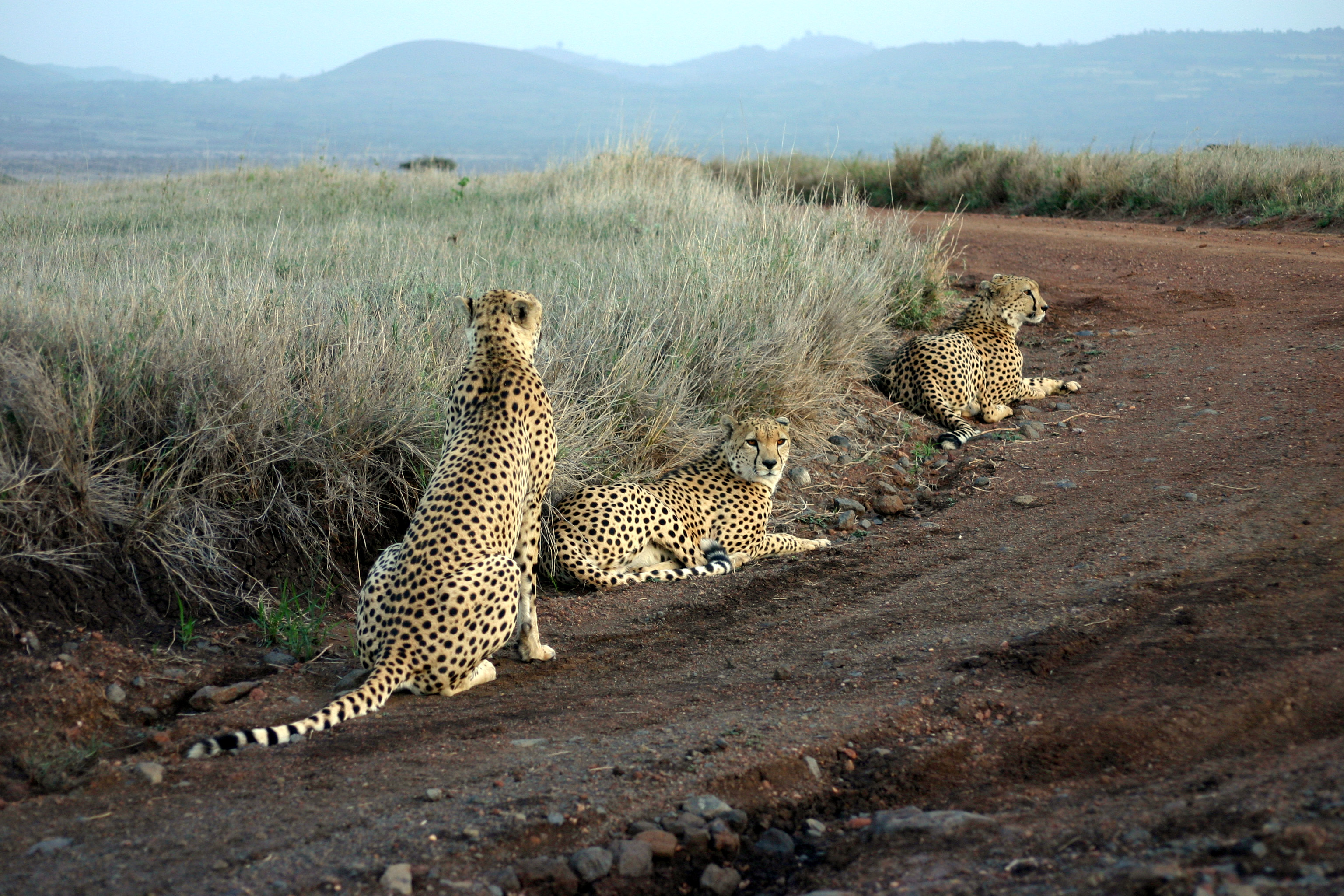 All of the cheetahs (Acinonyx jubatus) I have seen have come in threes. Here at Lewa game park, Kenya.cheetah1